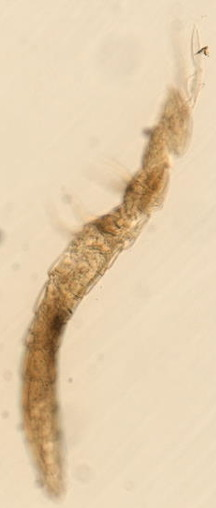 PRESERVED_SPECIMEN; ; ; microslide; ; IZ number 98962; lot count 1; Microslide 01, balsam, whole mount; 1943-07-12T00:00:00Z